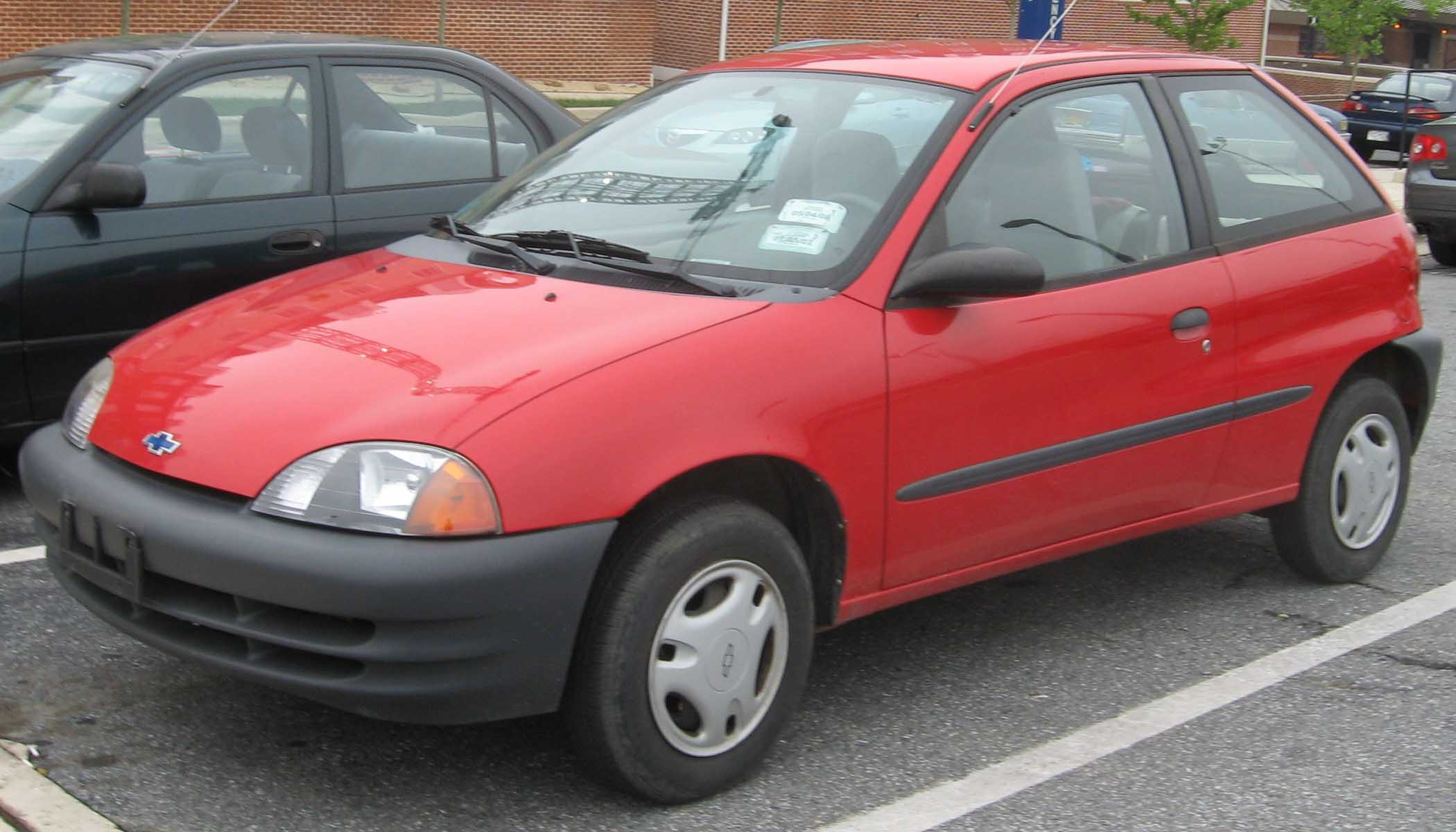 1998-2000 Chevrolet Metro photographed in College Park, Maryland, USA.